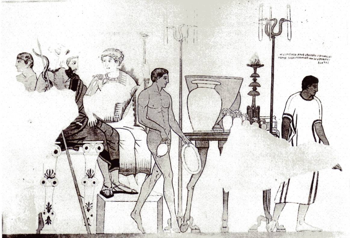 Aita and Phersipnai Enthroned, A drawing depicting one of the frescoes from the Tomba Golini at Orvieto, mid 4th century BC